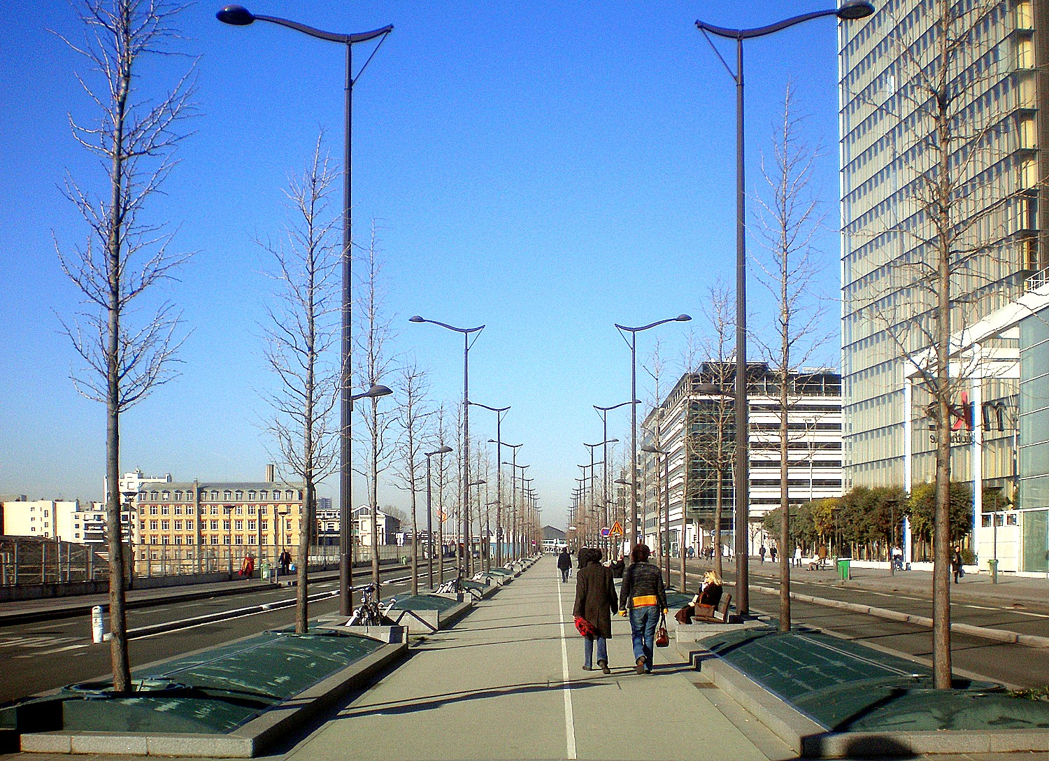 France avenue - Paris